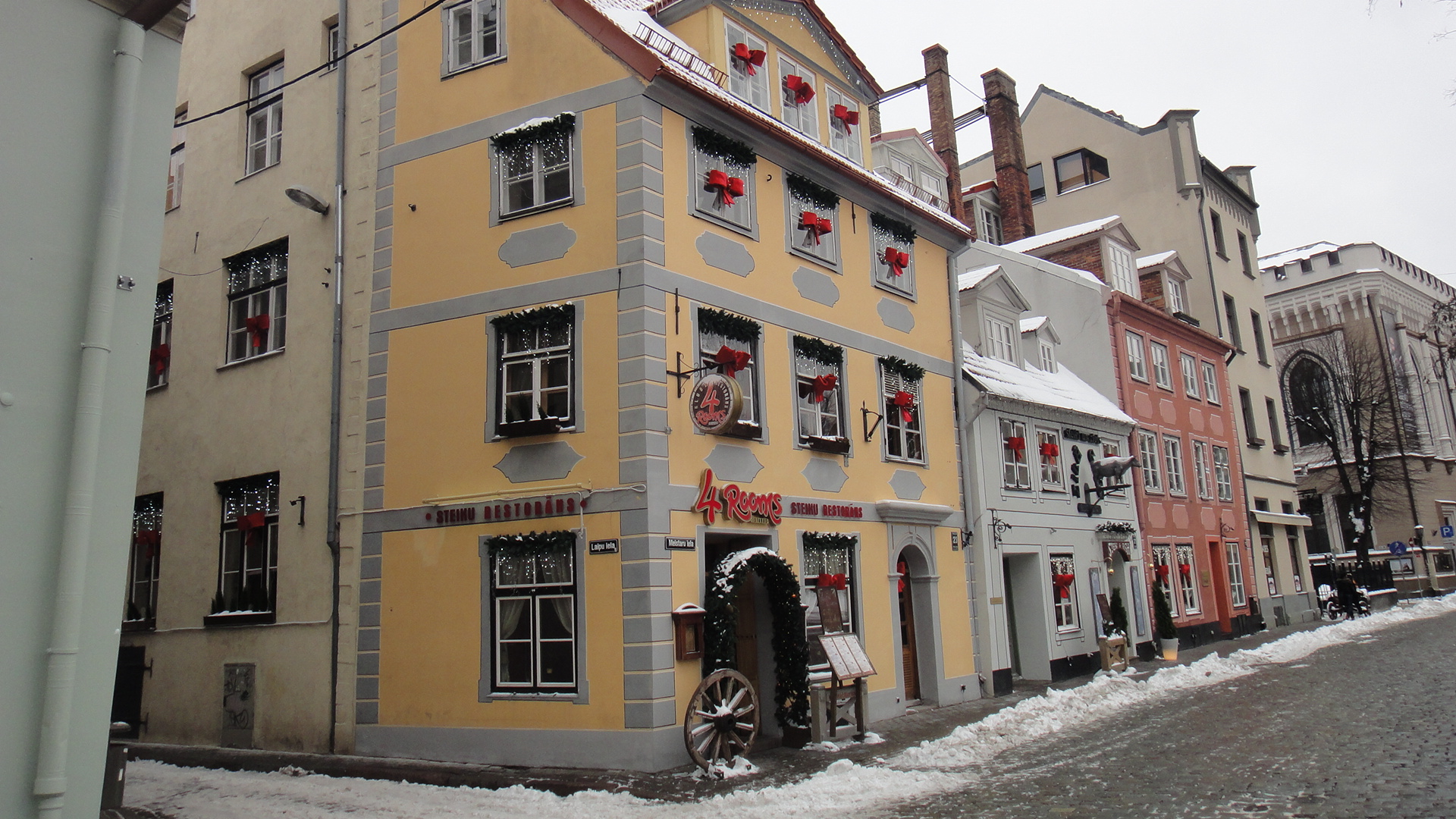 улица Мейстару